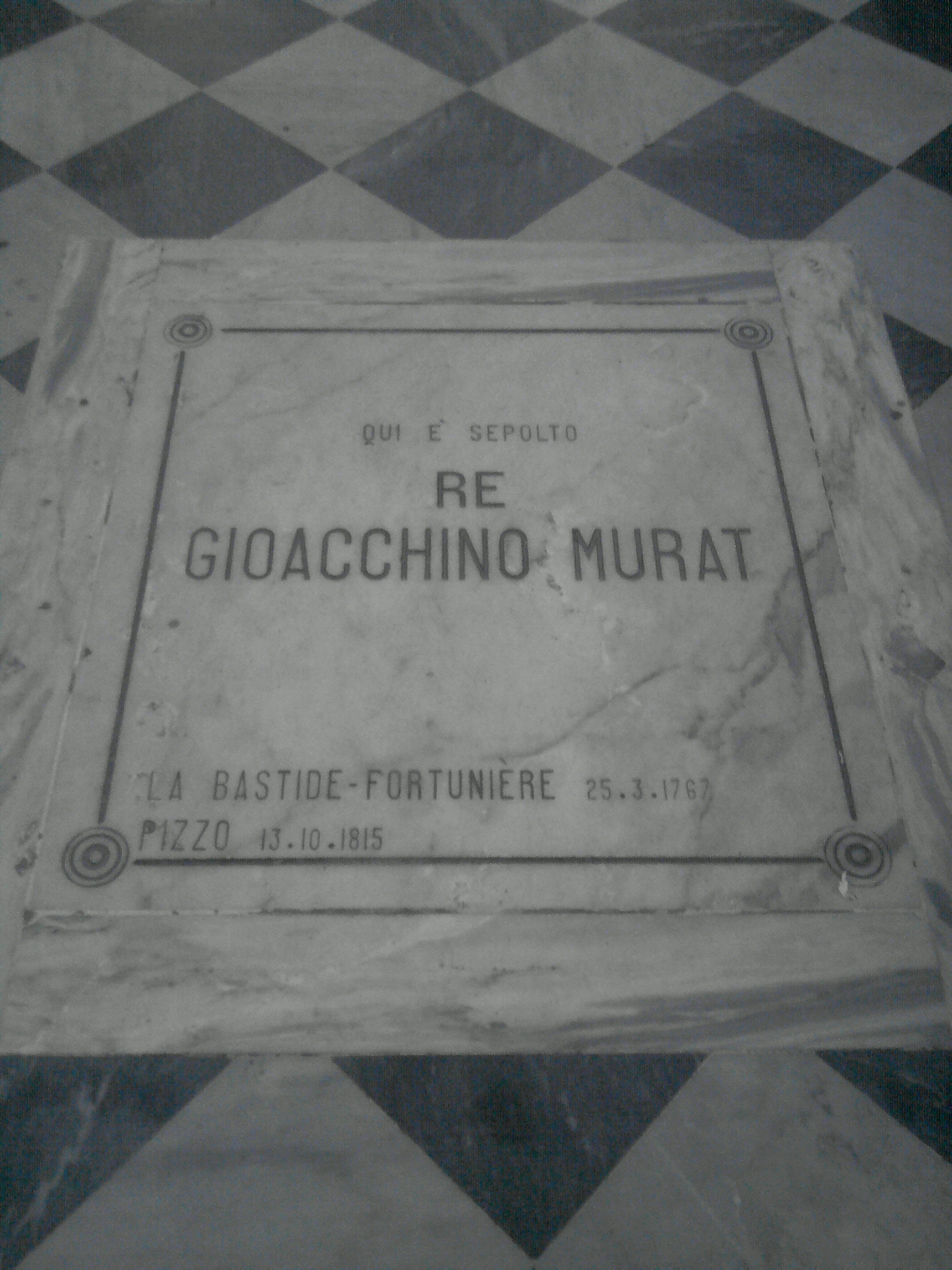 Lapide che ricorda il luogo di sepoltura di Gioacchino Murat nella Chiesa Matrice di San Giorgio a Pizzo Calabro.